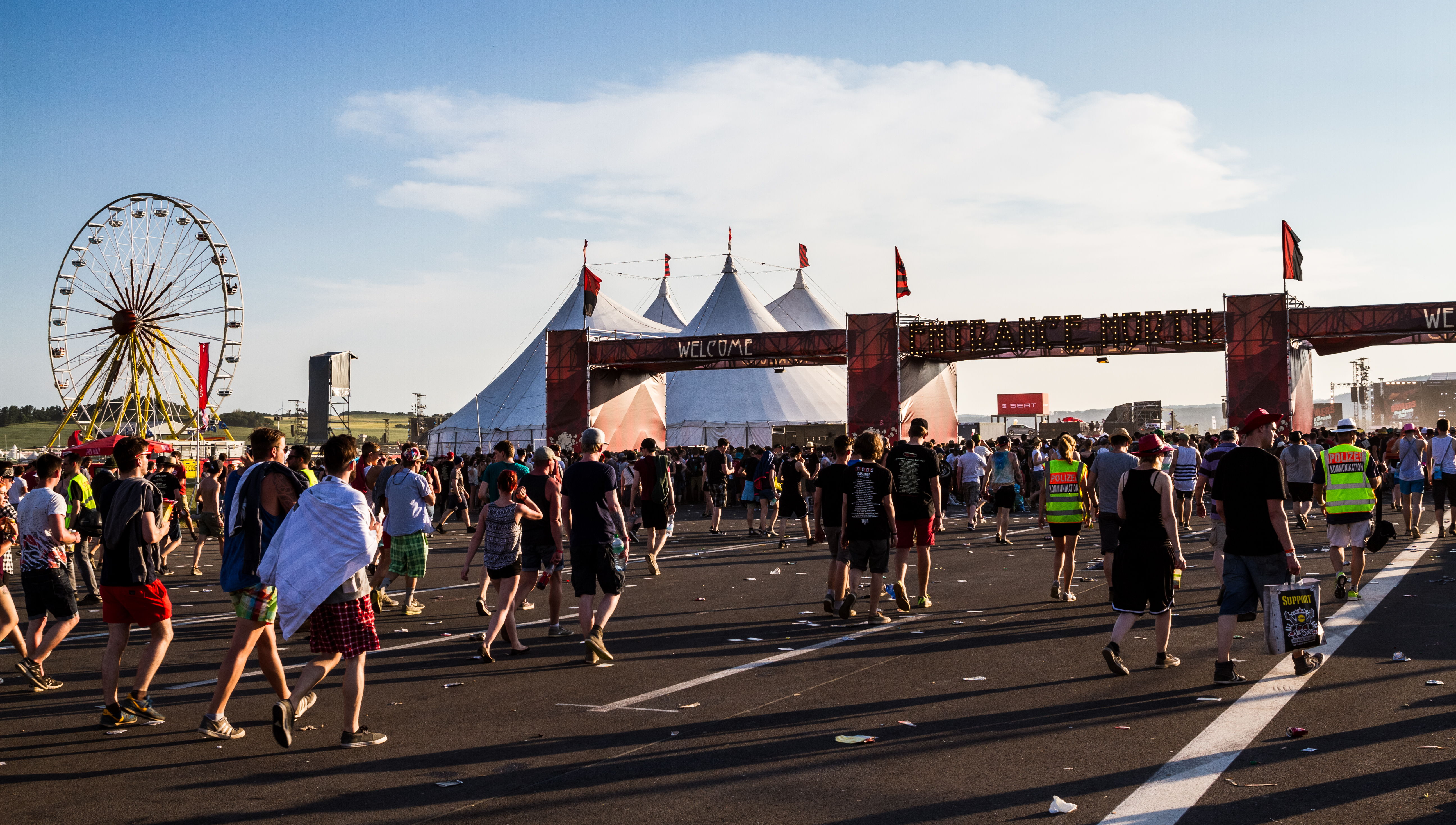 Festival area - Rock am Ring 2015